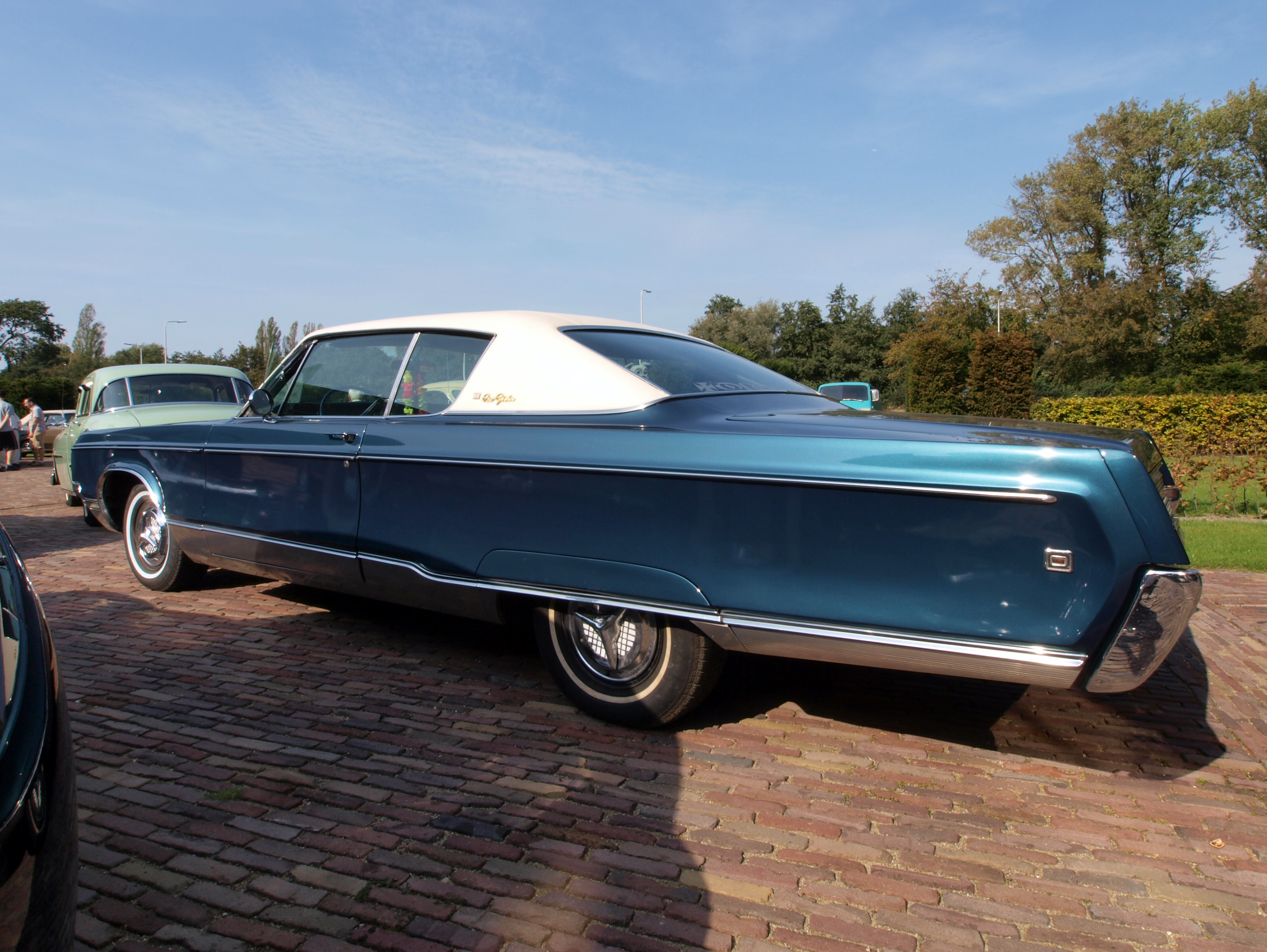 Photographed at the premmesis of the Louwman museum, The Hague, The Netherlands. OLYMPUS DIGITAL CAMERA